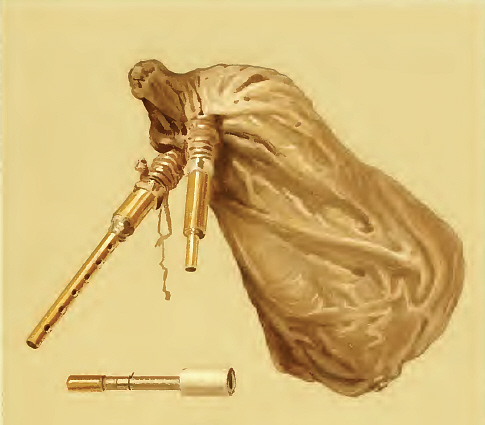 Plate XVI (presumably of Day, C. R. (Charles Russell) : The music and musical instruments of southern India and the Deccan. -- London & New York : Novello, 1891. -- xvi, 173 S. : Ill. ; 25cm. -- S. 151.) showing the sruti upanga, the bagpipe of Tamil Nadu, India